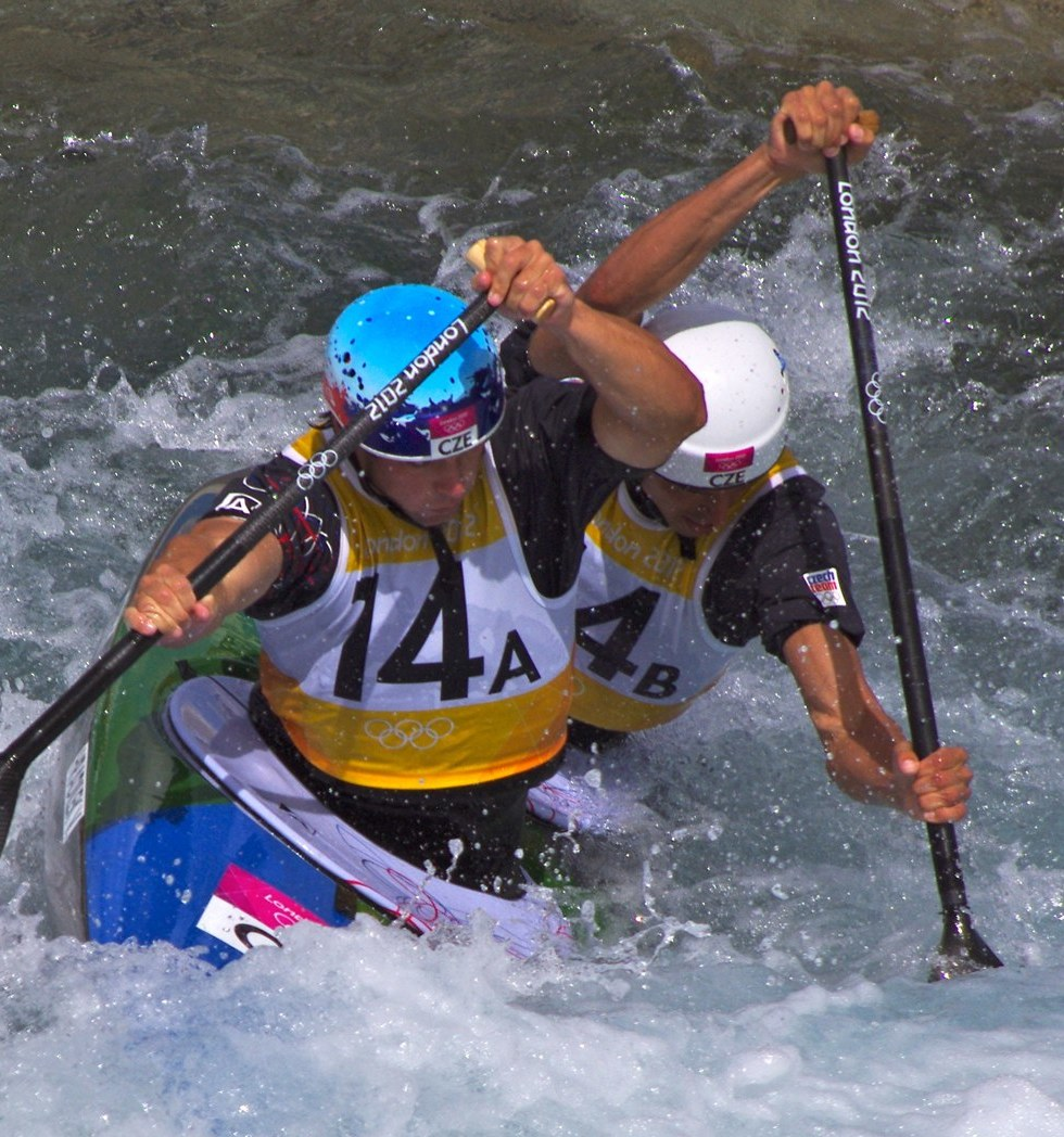 Canoeing at the 2012 Summer Olympics – Men's slalom C-2 Vavřinec Hradilek (14A) and Stanislav Ježek (14B) (CZE)